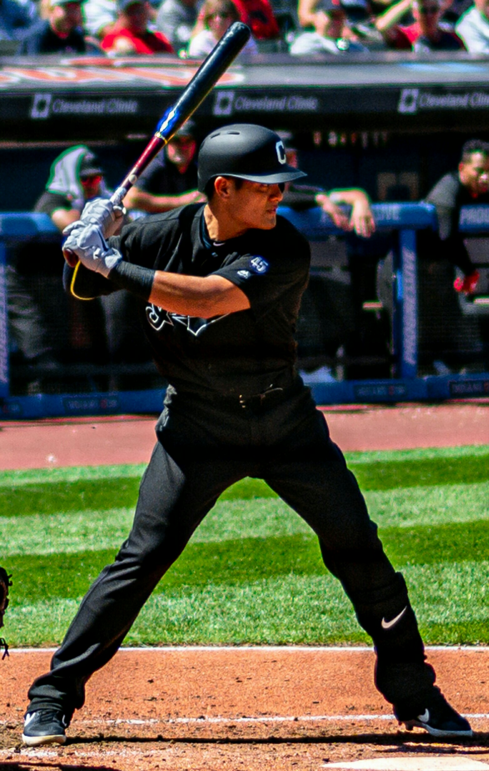 Yu Chang records his first major league hit.